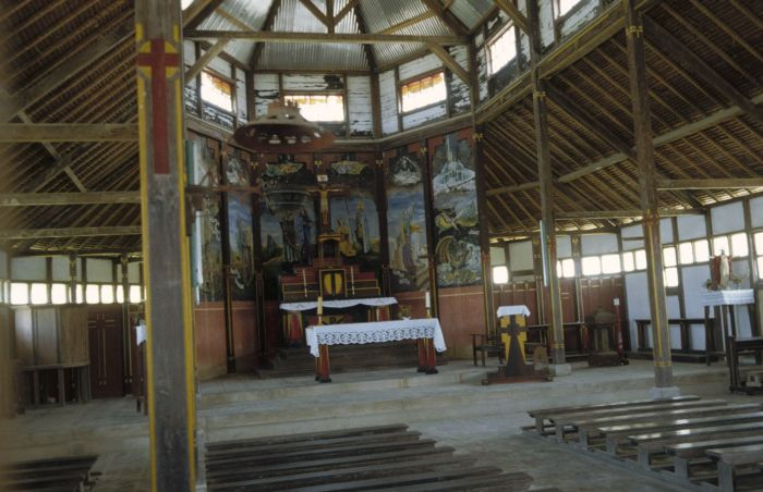 Interior Roman Catholic church at Lorulun